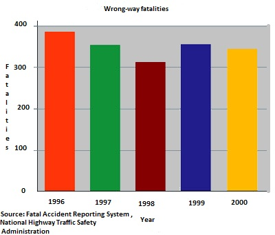 A chart depicting the number of fatalities in the United States caused by drivers headed in the wrong direction, for each year from 1996-2000.